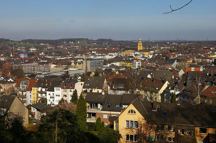 View over Witten